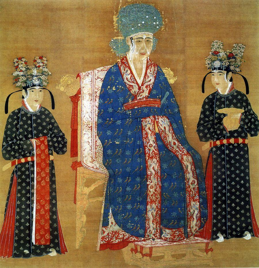 The Official Imperial Portrait of Song Dynasty's Empresses